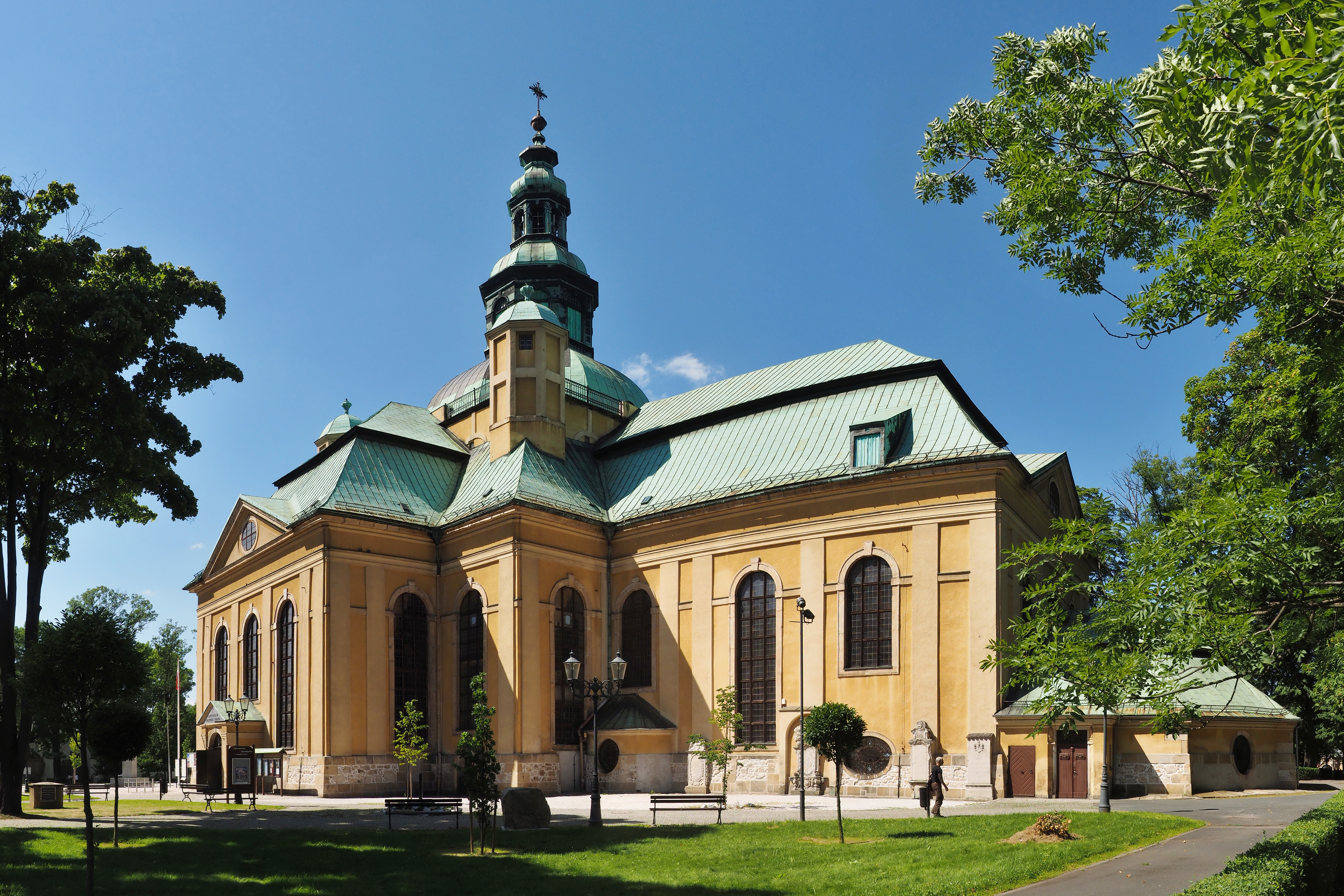 Exaltation of the Holy Cross church in Jelenia Góra, Nether Silesia, Poland. View from the south-east.